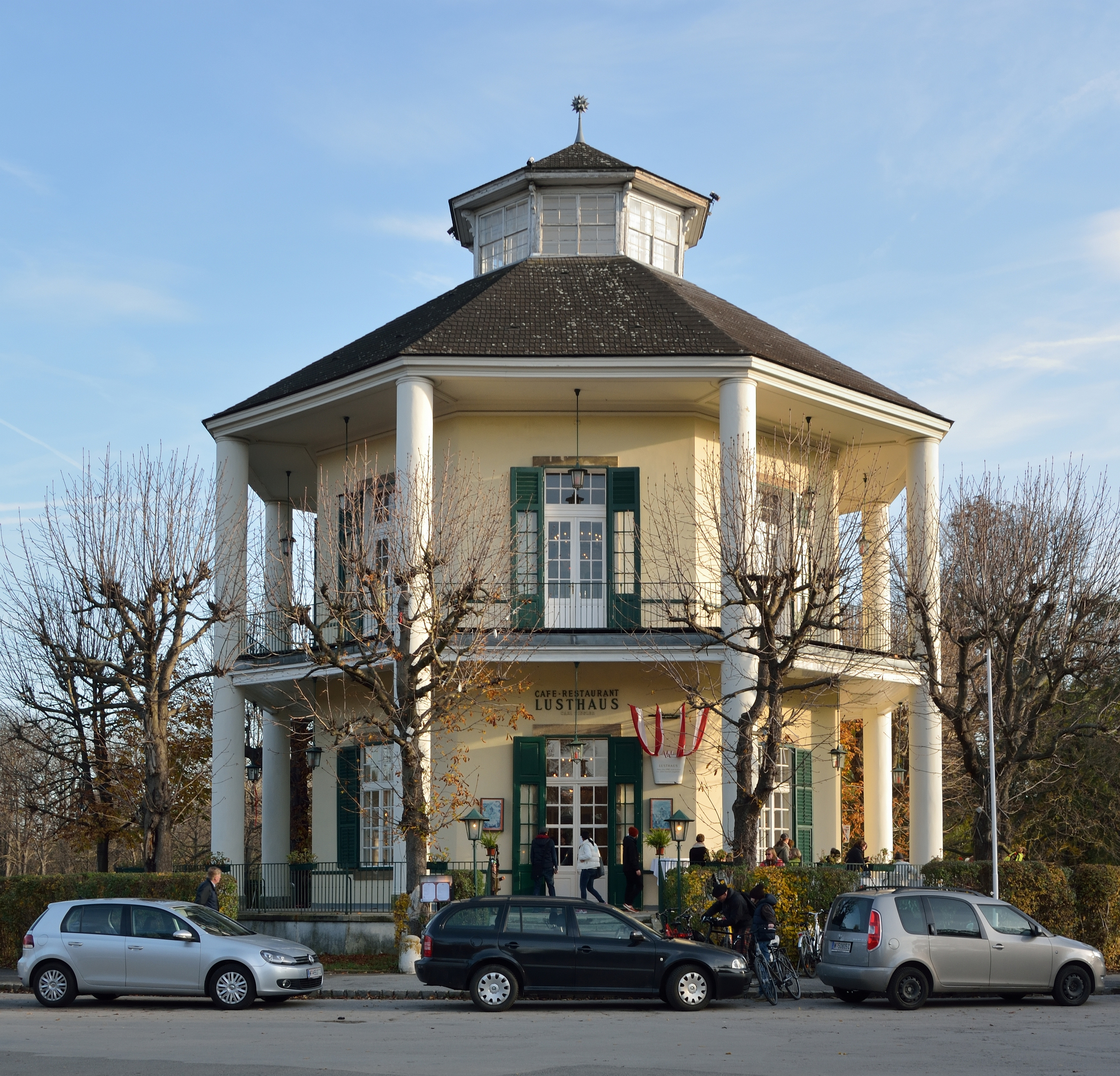 Lusthaus, Prater Hauptallee, 2nd district of Vienna